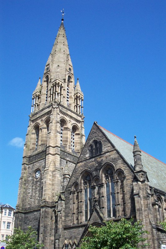 Church_on_CausewaySide, Edinburgh